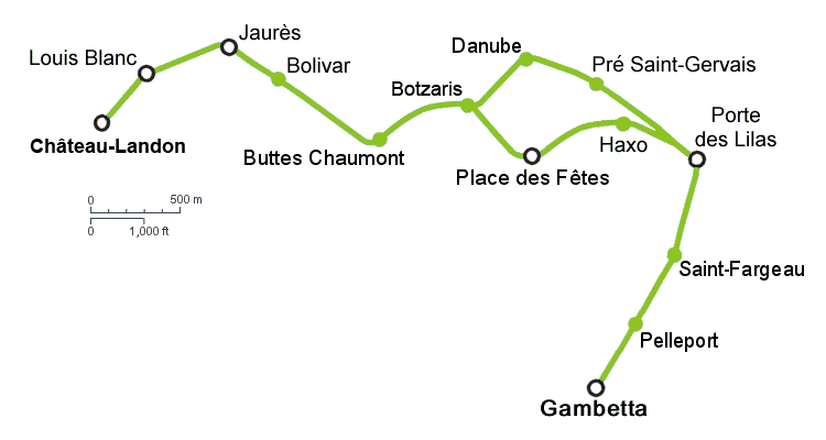 The map of Paris Métro lignes 3bis and 7bis merge.